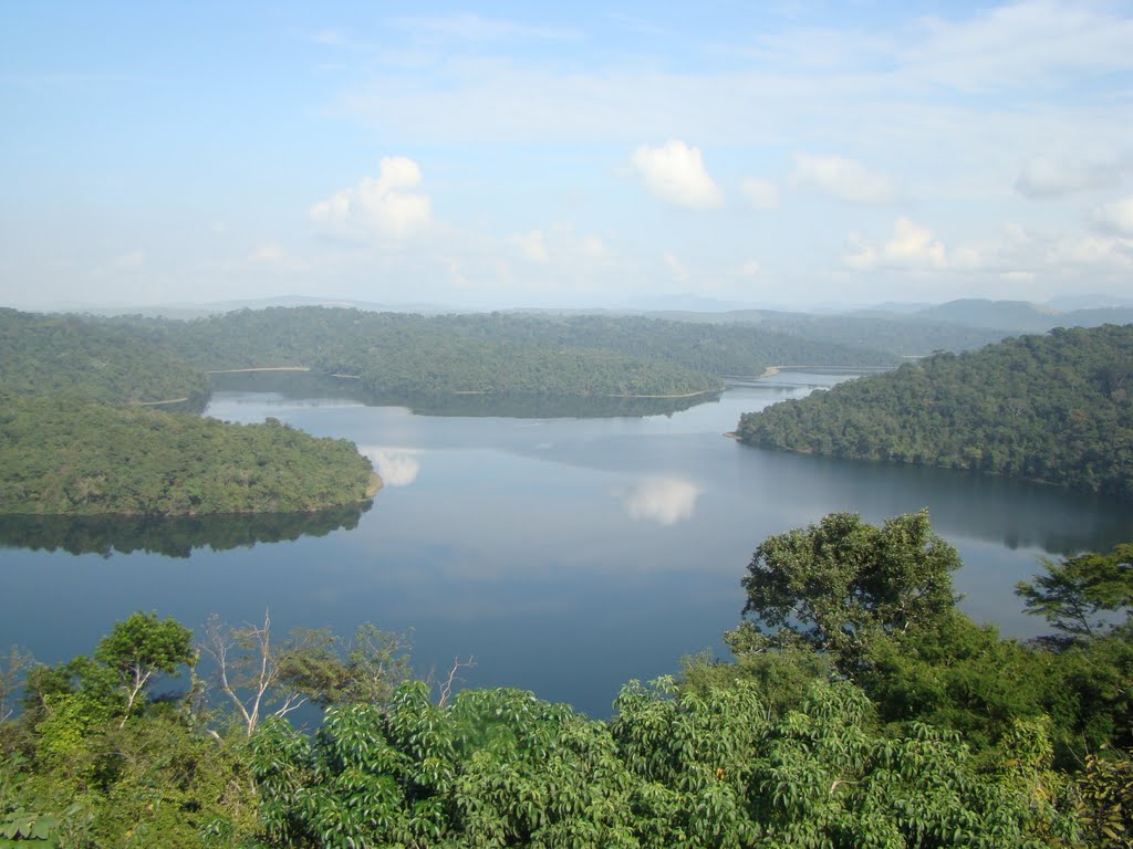 Dom Helvécio lagoon, i Rio Doce State Park, Minas Gerais, Brazil.